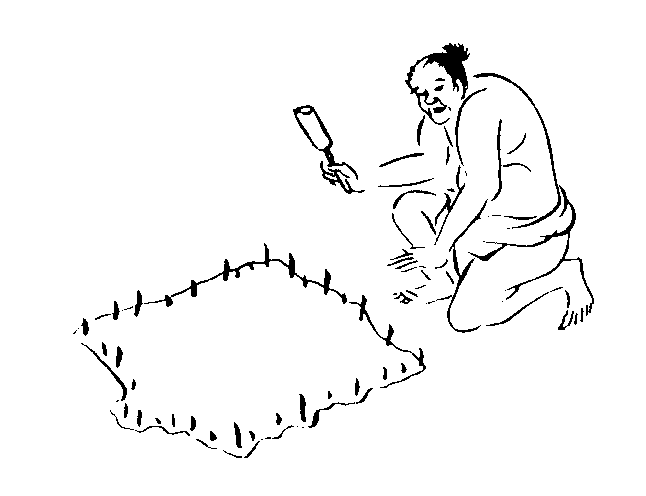 From Shichiju ichiban shokunin utaawase 36th "Eta" (circa 1500)